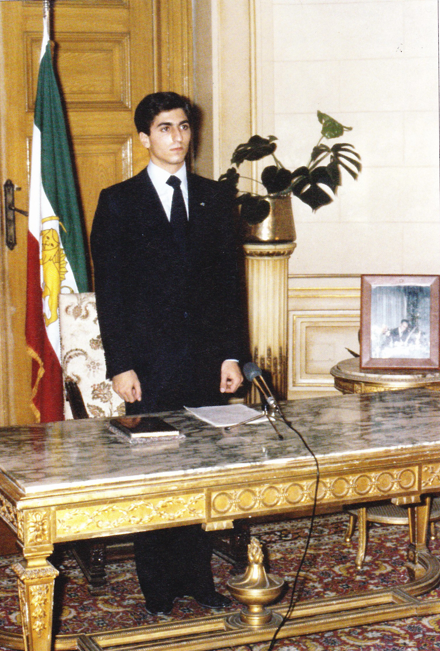 Cyrus Reza Pahlavi sends a radio message to the Iranian Nation, Qoubbeh-Palace, Cairo, 1980